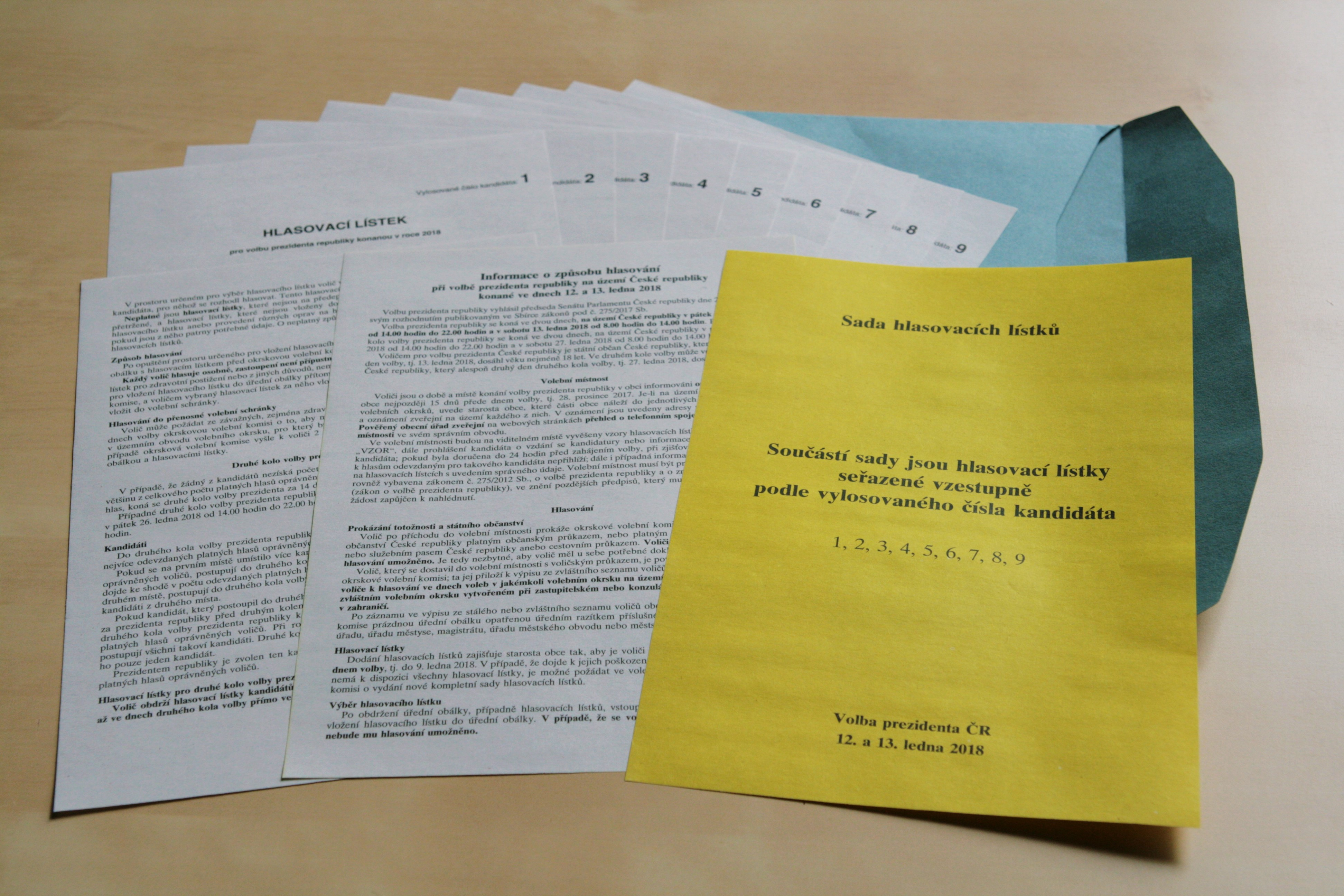 Ballot papers of the presidential election in the Czech Republic January 12-13, 2018.